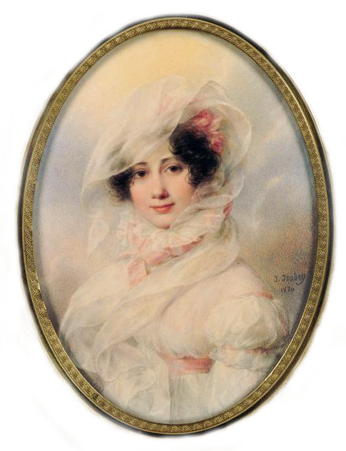 Catherine Bagration-Skavronskaya (?) (Wrong attribution? She should be blond).